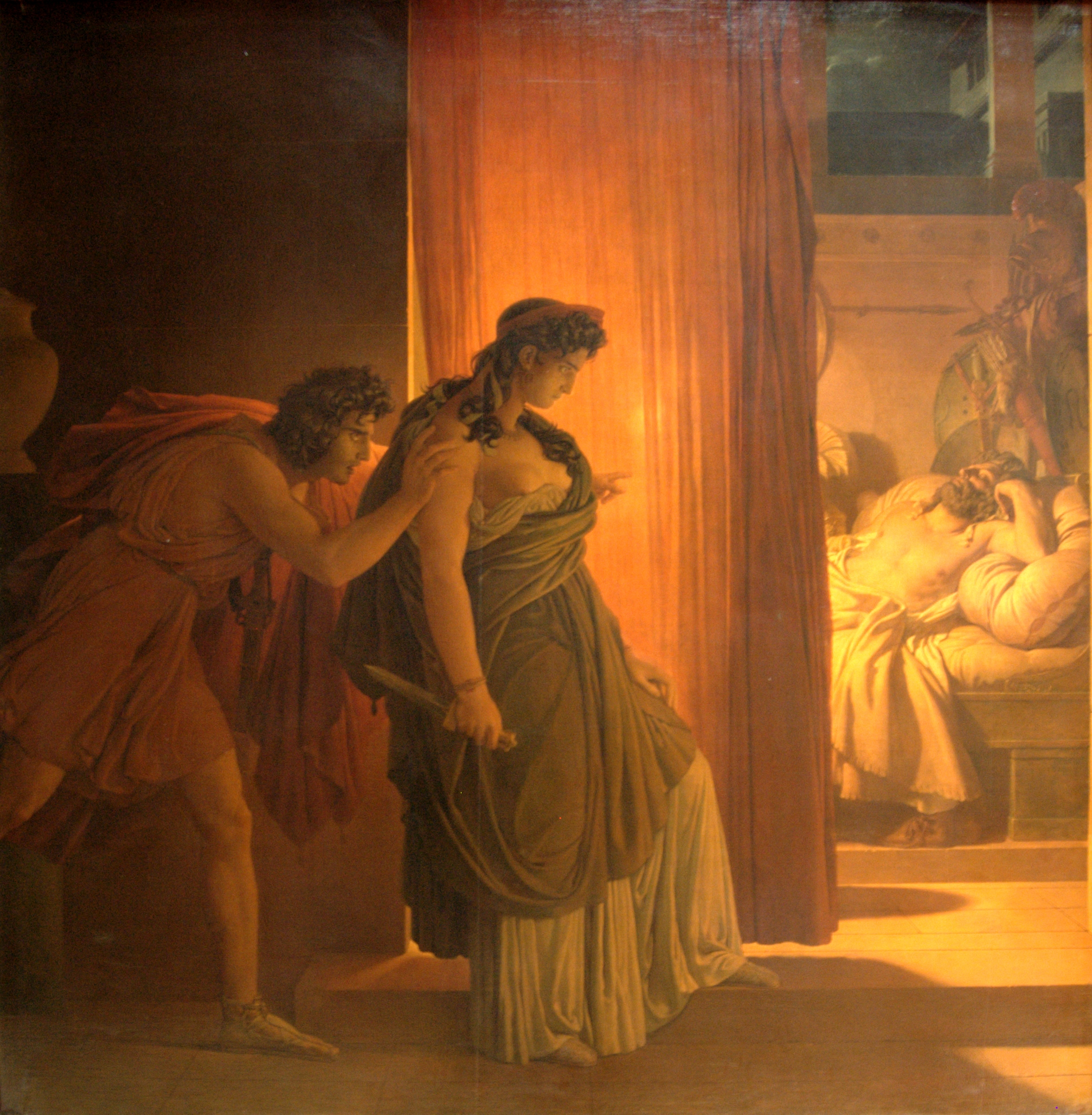 Clytemnestra hesitates before killing the sleeping Agamemnon. On the left, Aegisthus urges her on.